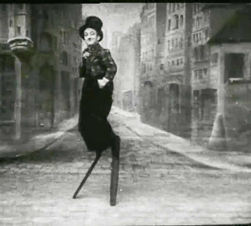 The music hall comedian Little Tich on stage at the Phono-Cinéma-Théatre, France performing his "big boot dance". The video was directed by Clément Maurice who died in 1933. It was recorded in 1900, and is thought to be the only surviving video of Little Tich on stage.